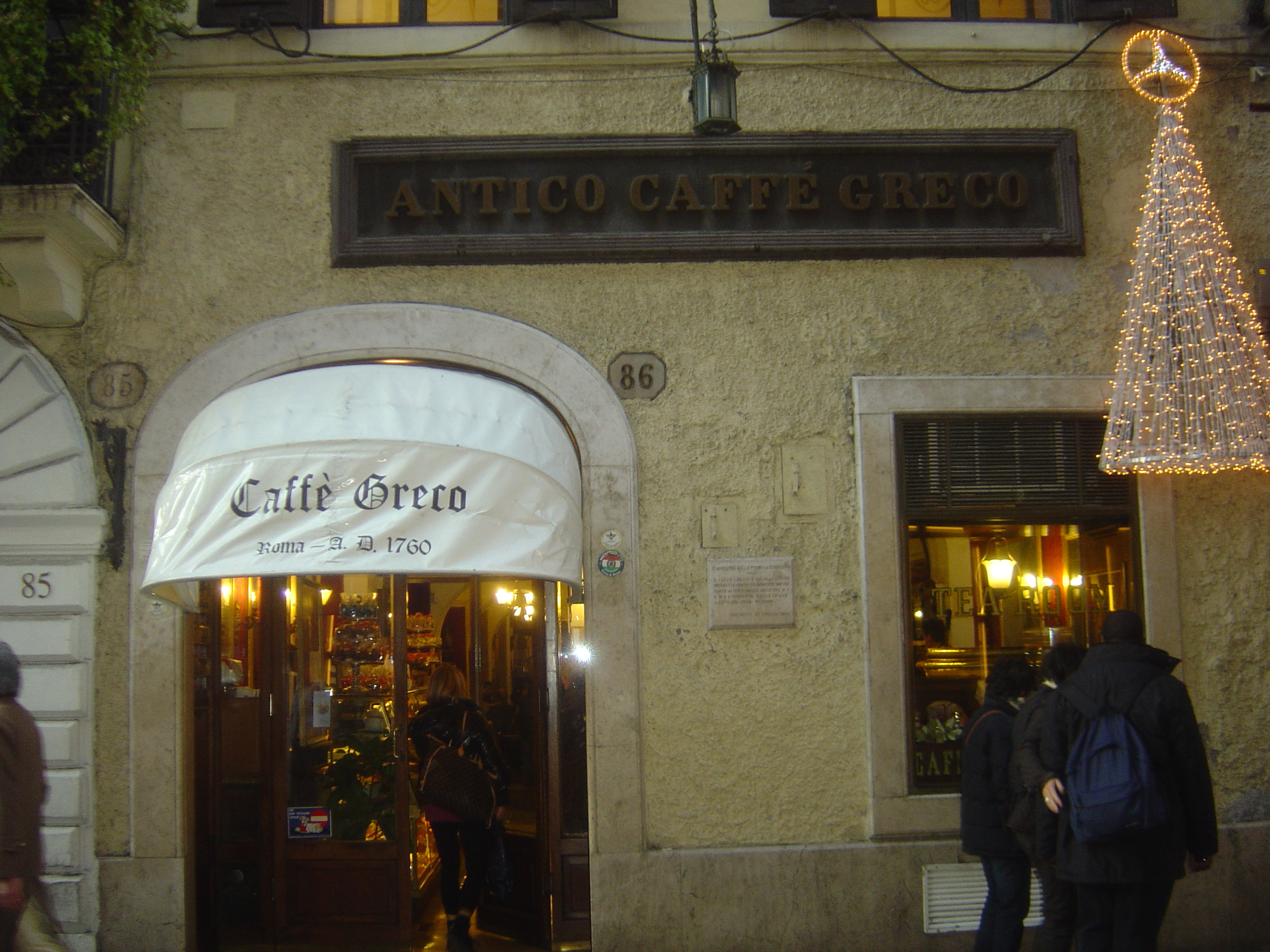 Caffe Greco in Rome